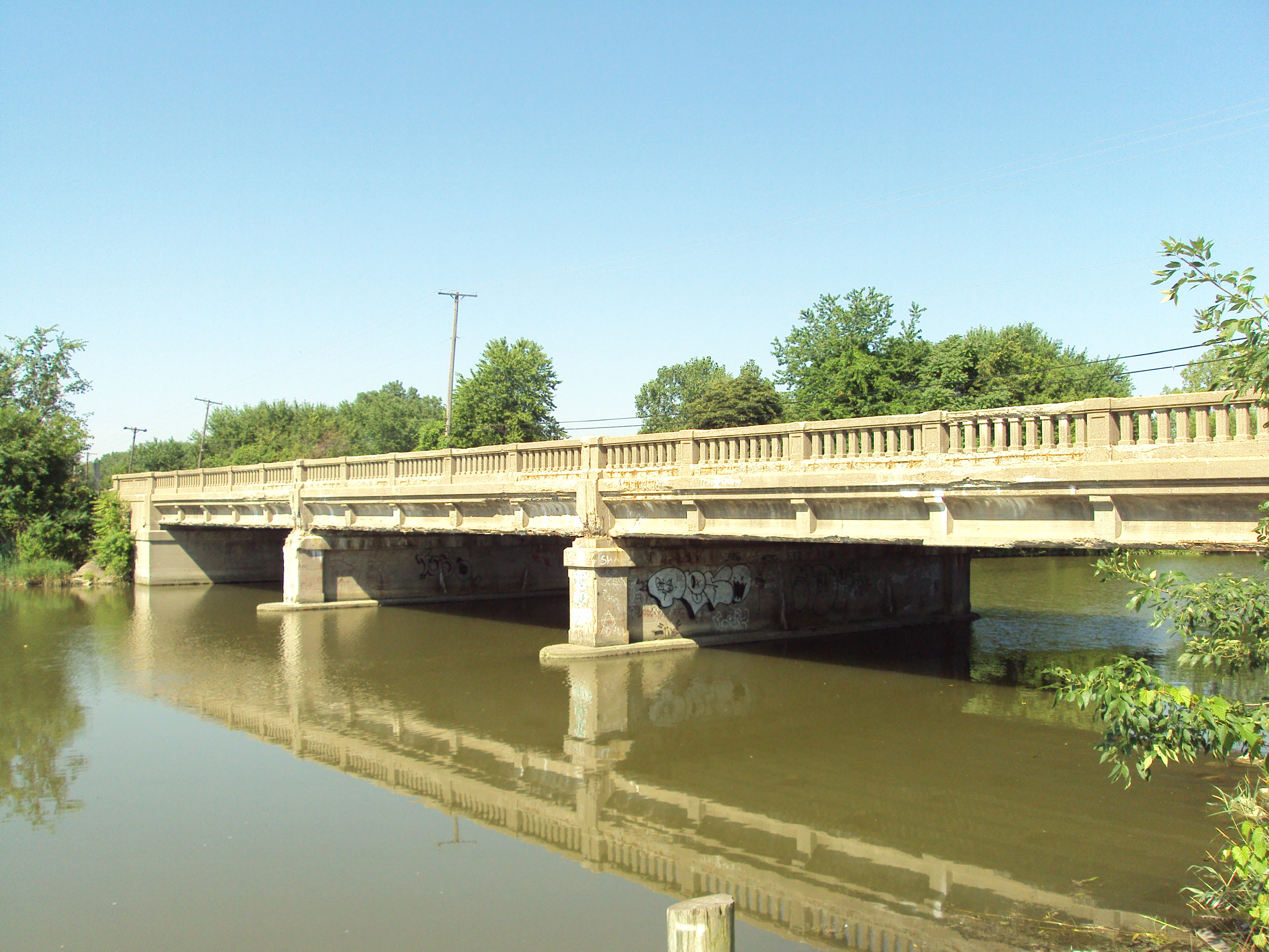 Jefferson Avenue Bridge (part of the Jefferson Avenue-Huron River and Harbin Drive-Silver Creek Canal Bridges on the National Register of Historic Places)